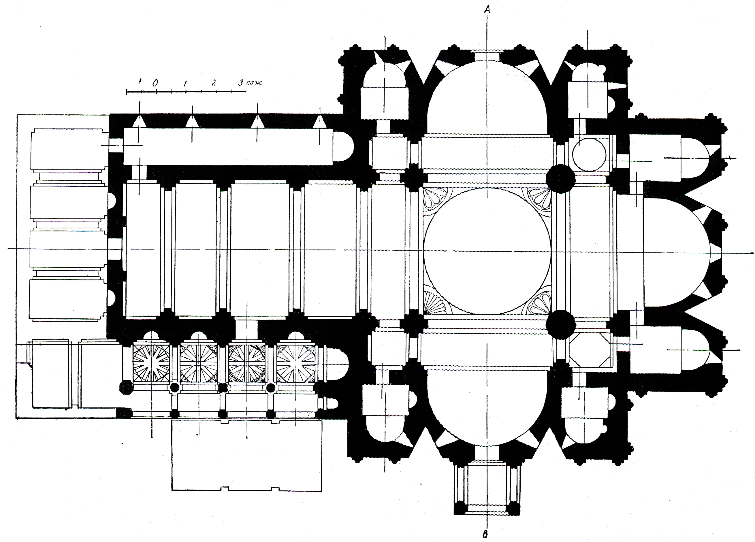 Ground floor plan of the Oshki cathedral.